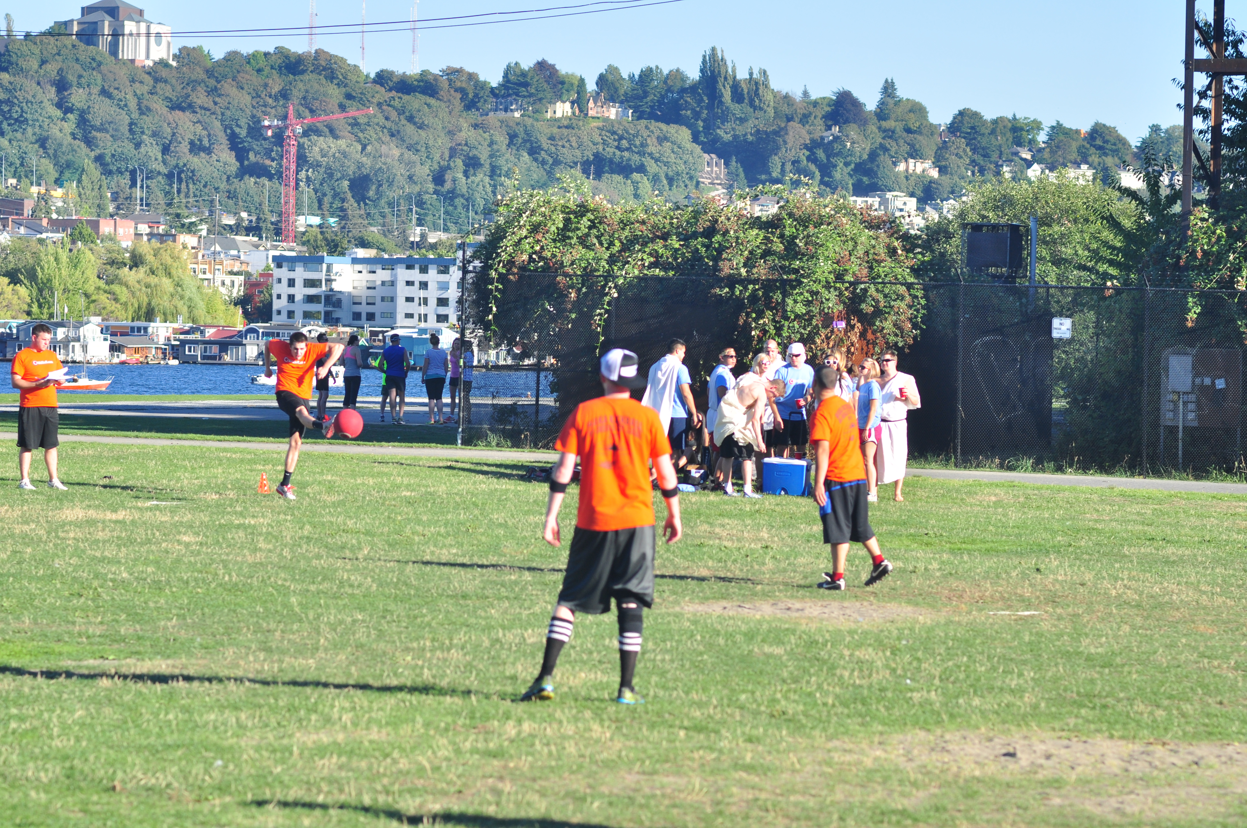 Kickball practice at Gas Works Park, Seattle, Washington, U.S.